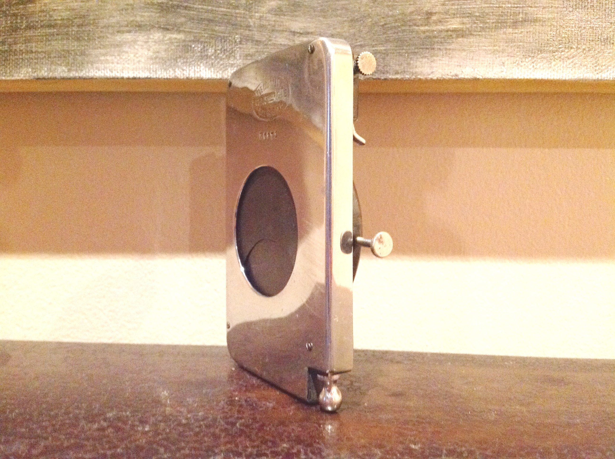 " LE CONSTANT" Obturateur CH. B. , Paris, 1895. Two blade guillotine shutter